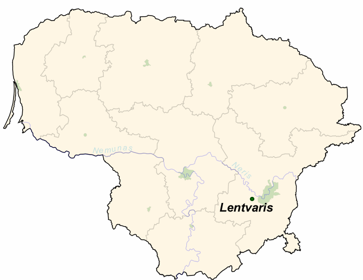 Lentvaris on the map of Lithuania